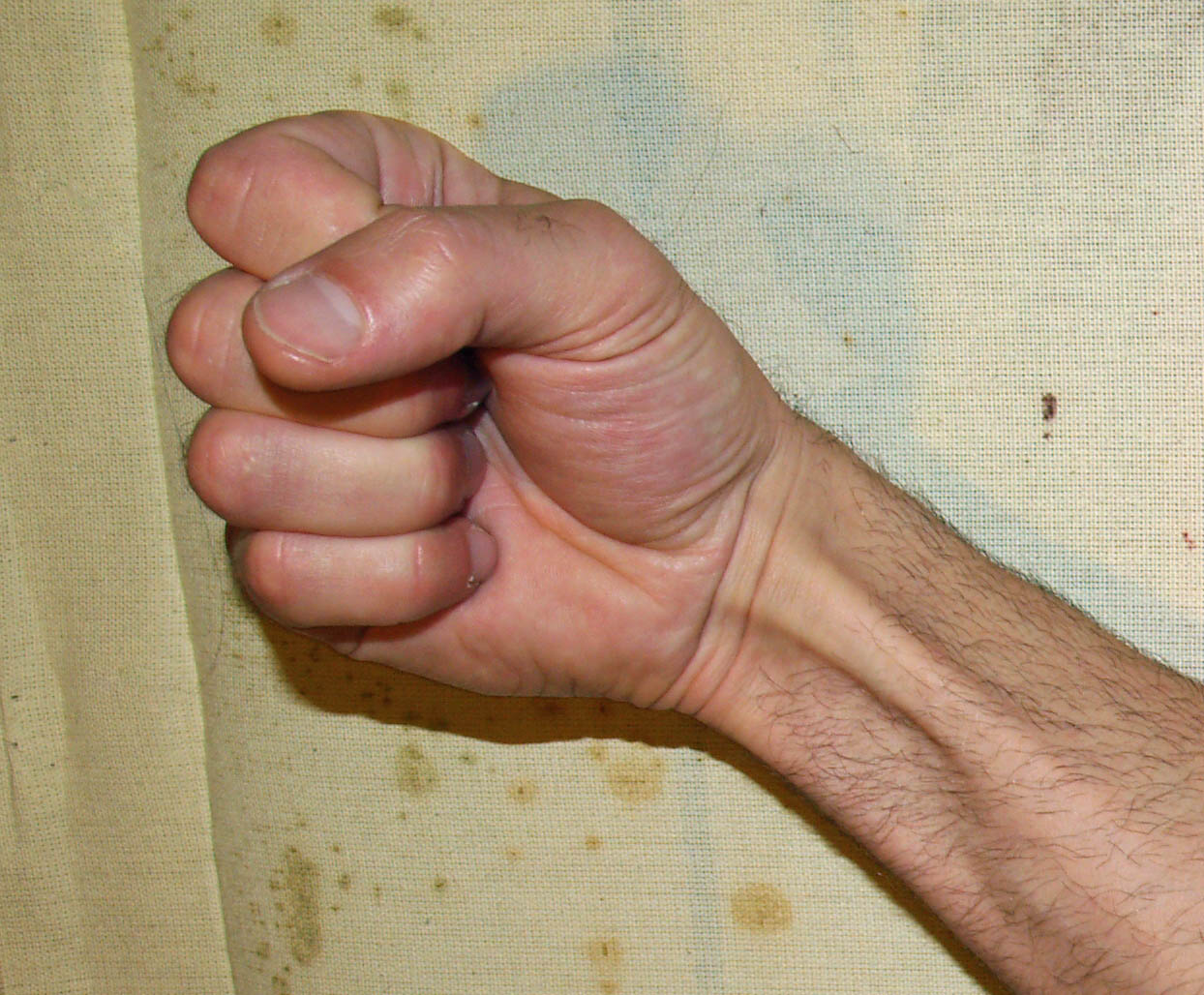 Fist by David Shankbone